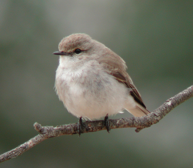 Jacky Winter (Microeca fascinans) Capertee, NSW, Australia